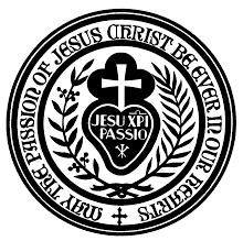 Passionist logo